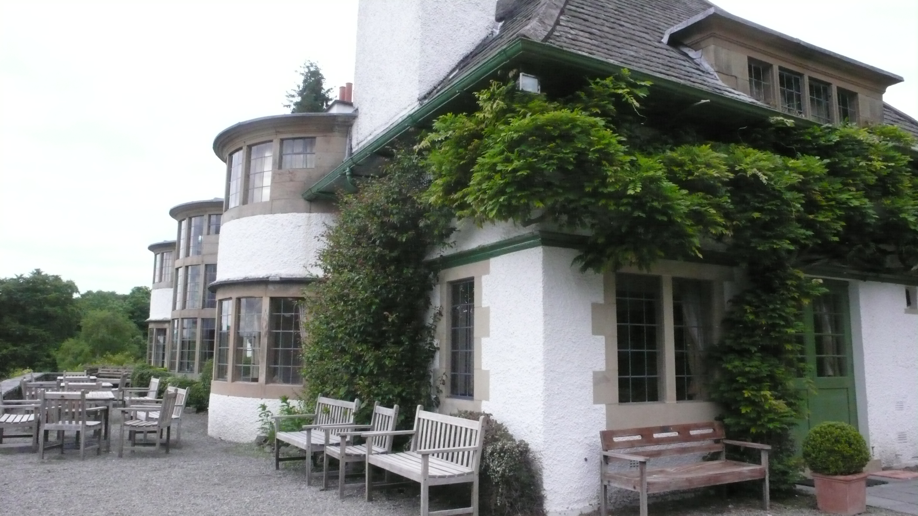 BROADLEYS Wikidata has entry Q17530673 with data related to this building.